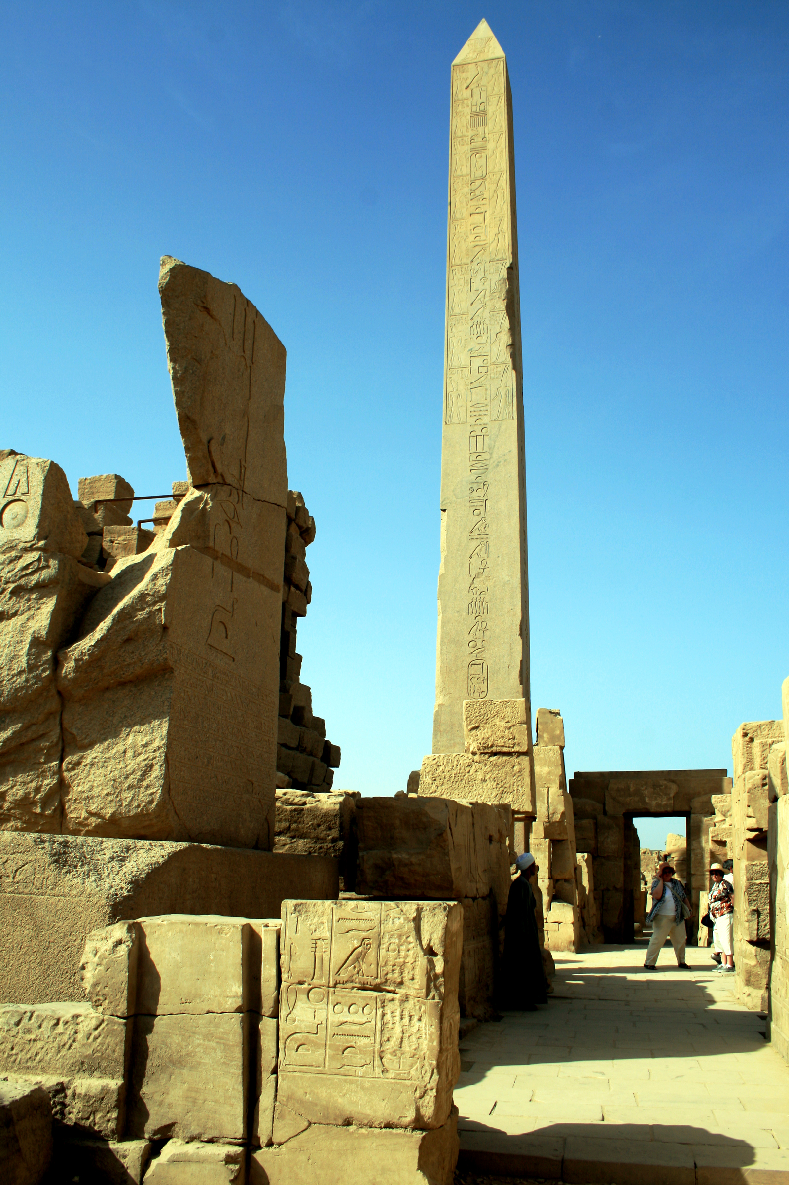 Obelisk in Karnak temple complex near Luxor, Egypt Česky: Obelisk v Karnackém chrámovém komplexu nedaleko od Luxoru, Egypt